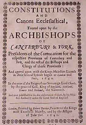 Title page of the Canons passed by the Convocation of the English Clergy at the behest of Charles I of England and William Laud and which imposed the Et Cetera Oath which was so distasteful to the Puritans